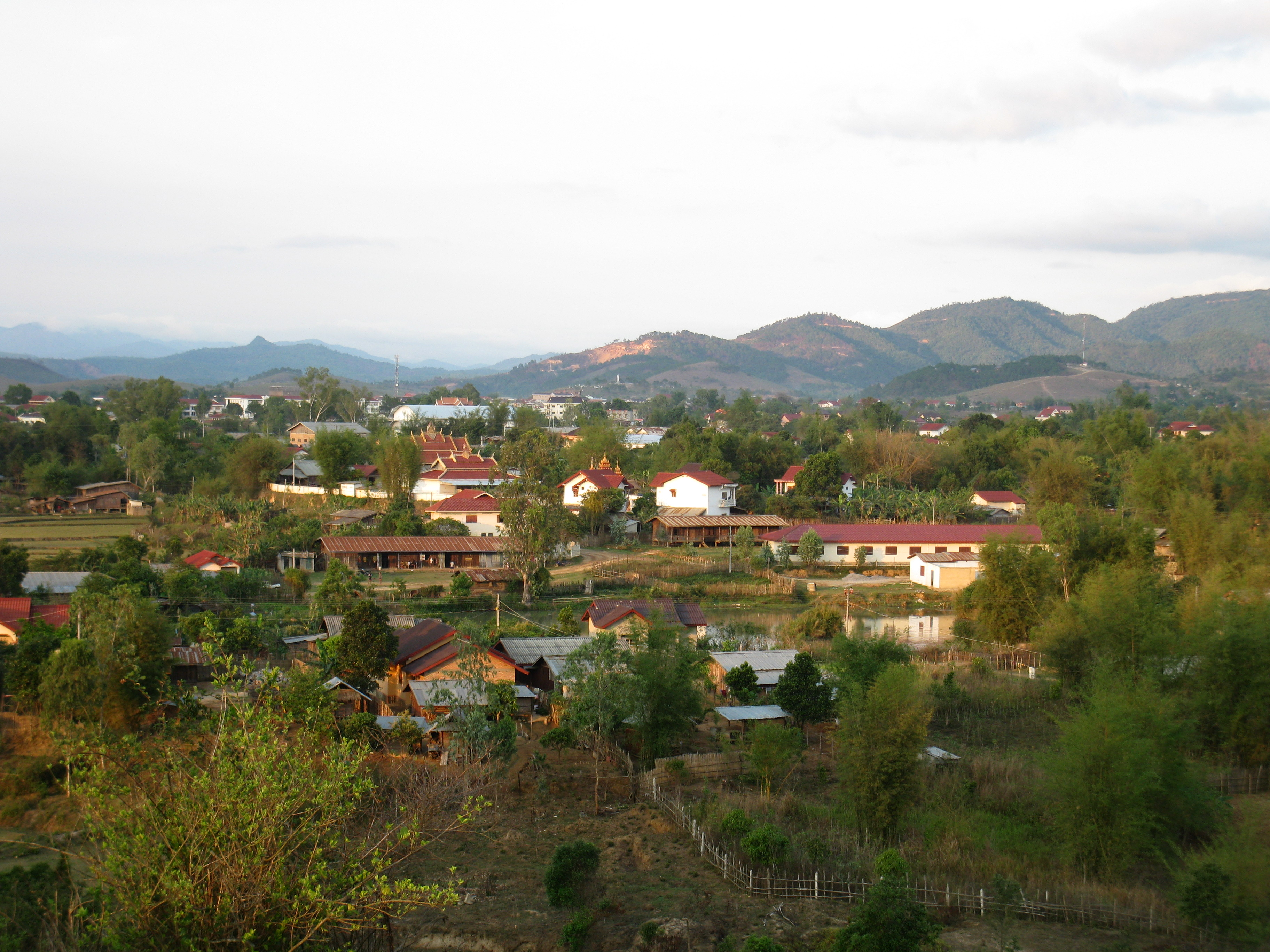 General view of Phonsavan